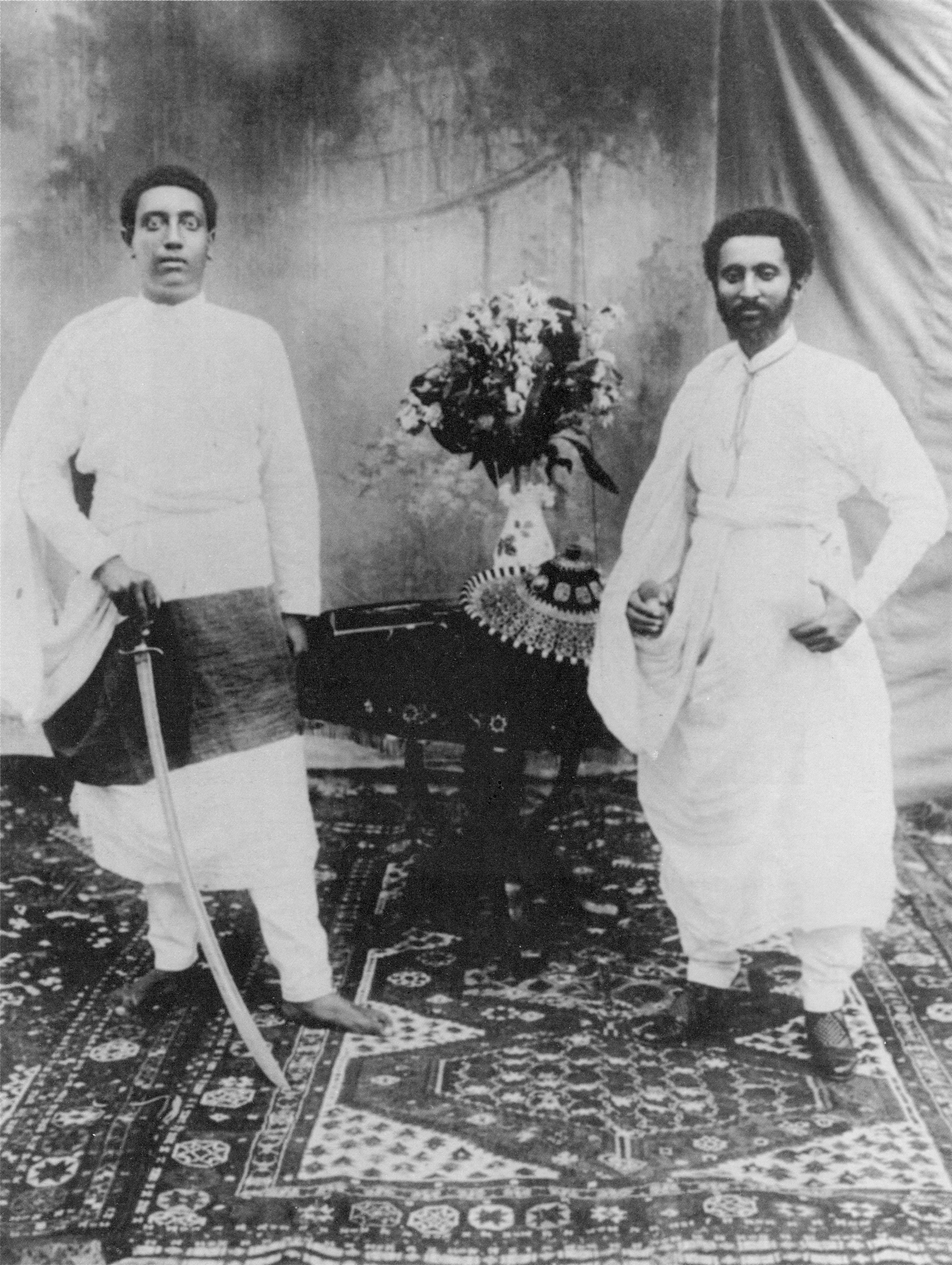 Lij Iyasu with Dejazmach Tafari